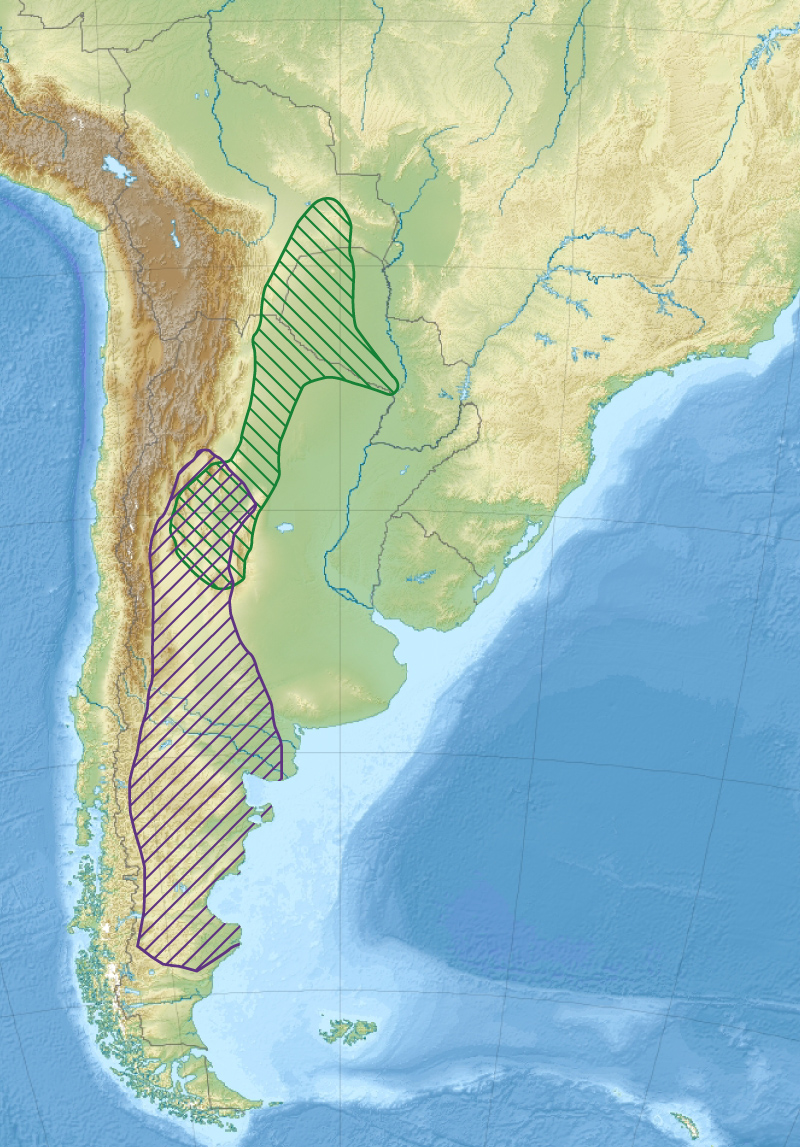 Distribution map of the maras (violet: Patagonian Mara, green: Chacoan Mara) This map has been made or improved in the German Kartenwerkstatt (Map Lab). You can propose maps to improve as well.